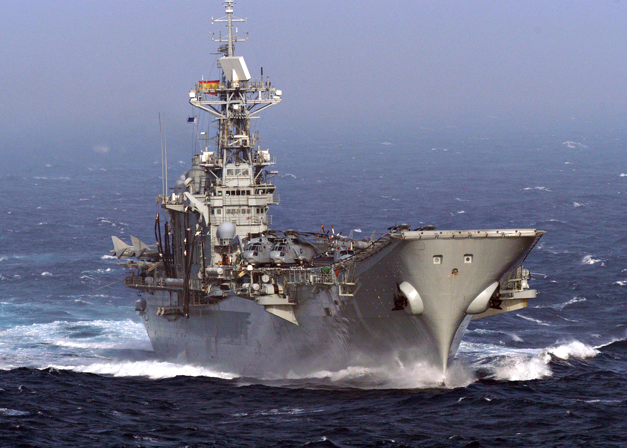 Atlantic Ocean (July 12, 2004) - The Spanish aircraft carrier SPS Principe De Asturias (R 11) steams through the Atlantic Ocean while participating in Majestic Eagle 2004. Majestic Eagle is a multinational exercise being conducted off the coast of Morocco. The exercise demonstrates the combined force capabilities and quick response times of the participating naval, air, undersea and surface warfare groups. Countries involved in the NATO led exercise include the United Kingdom, Morocco, France, Italy, Portugal, Spain, and Turkey. Truman's participation in Majestic Eagle is part of her scheduled deployment supporting the Navy's new fleet response plan (FRP) Summer Pulse 2004, the simultaneous deployment of seven carrier strike groups (CSGs), demonstrating the ability of the Navy to provide credible combat across the globe, in five theaters with other U.S., allied, and coalition military forces. U.S. Navy photo by Photographer's Mate 3rd Class William Howell (RELEASED) For more information go to